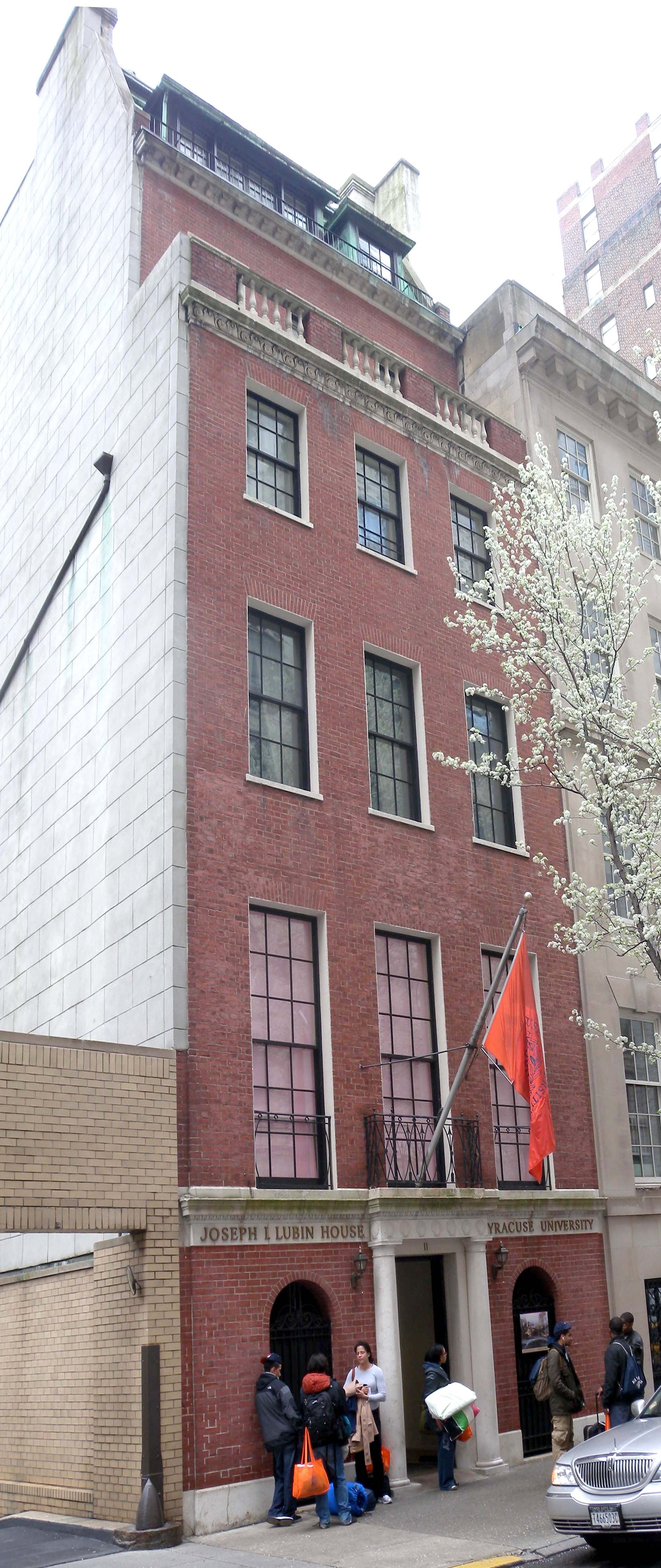 Looking east at Joseph Lubin House in Manhattan on a cloudy day.